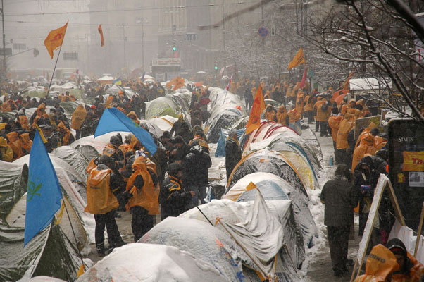 Photo by Olexandr Novickyj. Tent city at Khreshchatyk St. in Kyiv, 2004.